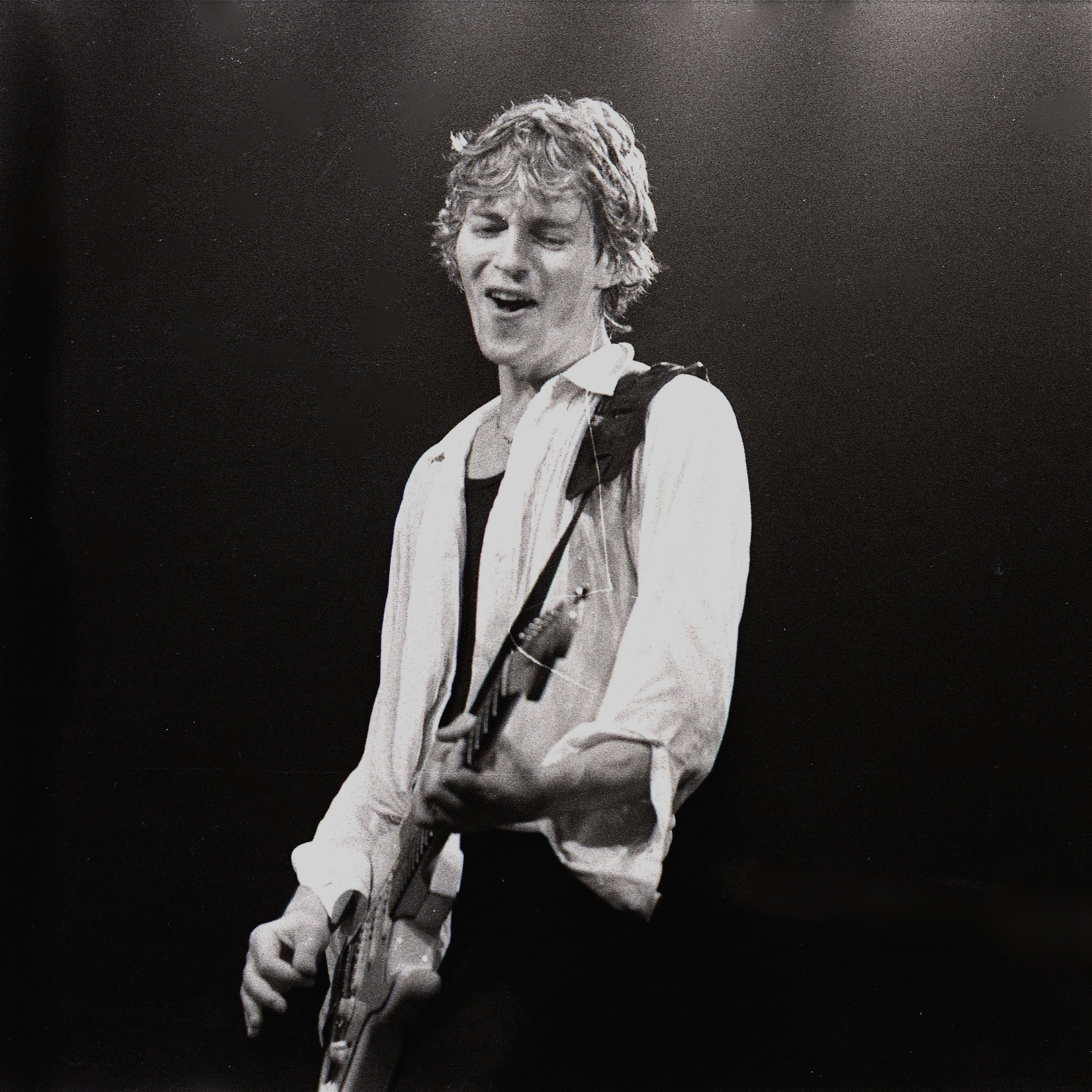 Hal Lindes of Dire Straits, Amsterdam 1981, at the Jaap Edenhal. We stood right in front of the stage and I shot this with my Praktica EE-2 with a 135mm lens. One of my first concerts ever, I was about 13.